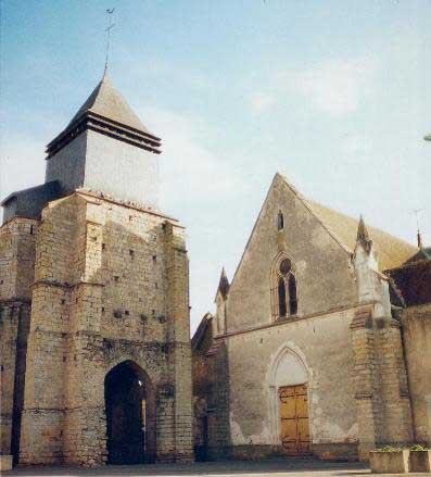 Malay-le-Grand, Yonne, France. Saint-Martin church (right) and its detached spire on the left, viewed towards the N-E. See the view on google's street camera.